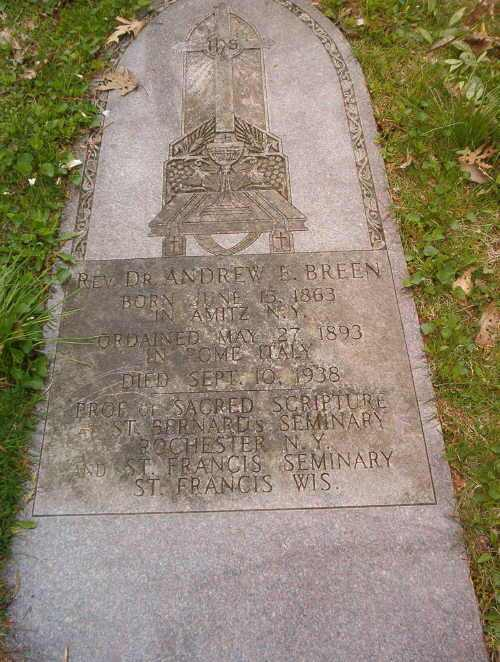 The gravestone of Rev. A.E. Breen Other information E-mail permission was given to use this image on the Wikipedia article (currently in draft) "A.E. Breen" Declaration of consent for all enquiries has been sent to the copyright holder for filing.